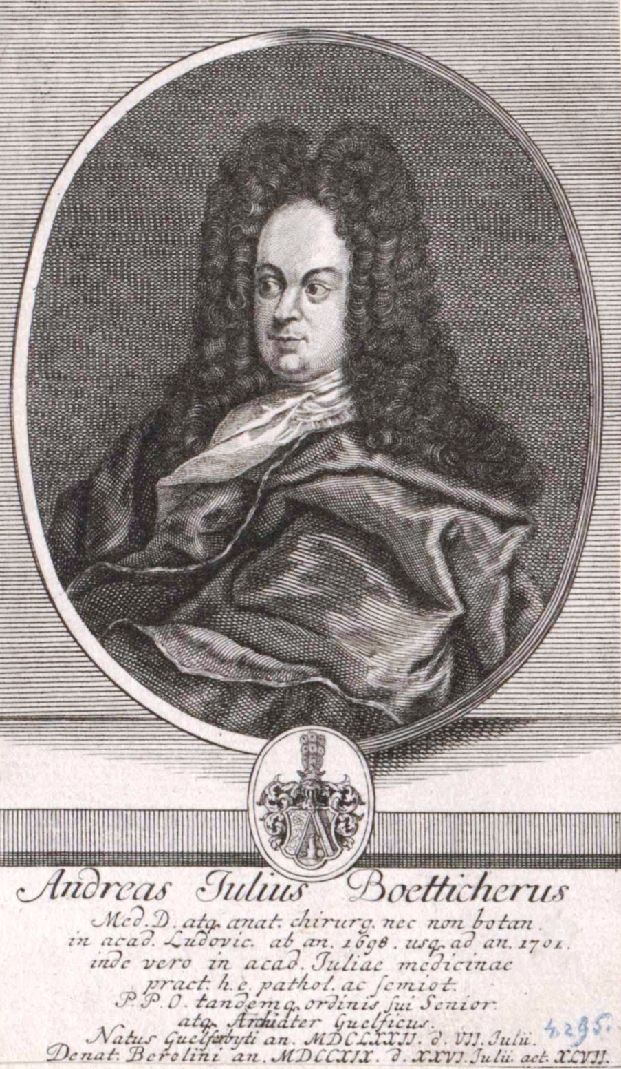 Andreas Julius Boetticher (1672–1719)